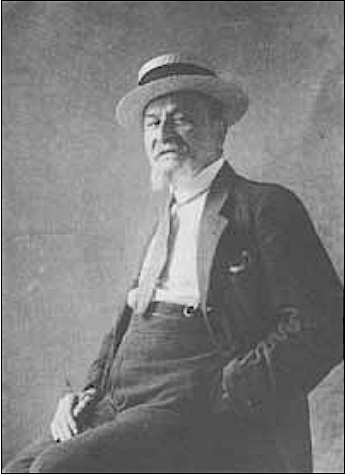 Alberto Della Valle, photographic portrait in Napoli [?]